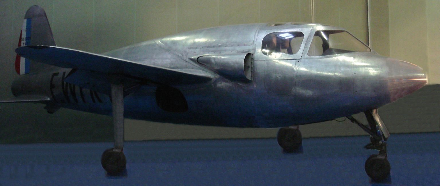 SO6000 Triton, 1946 French jet aircraft